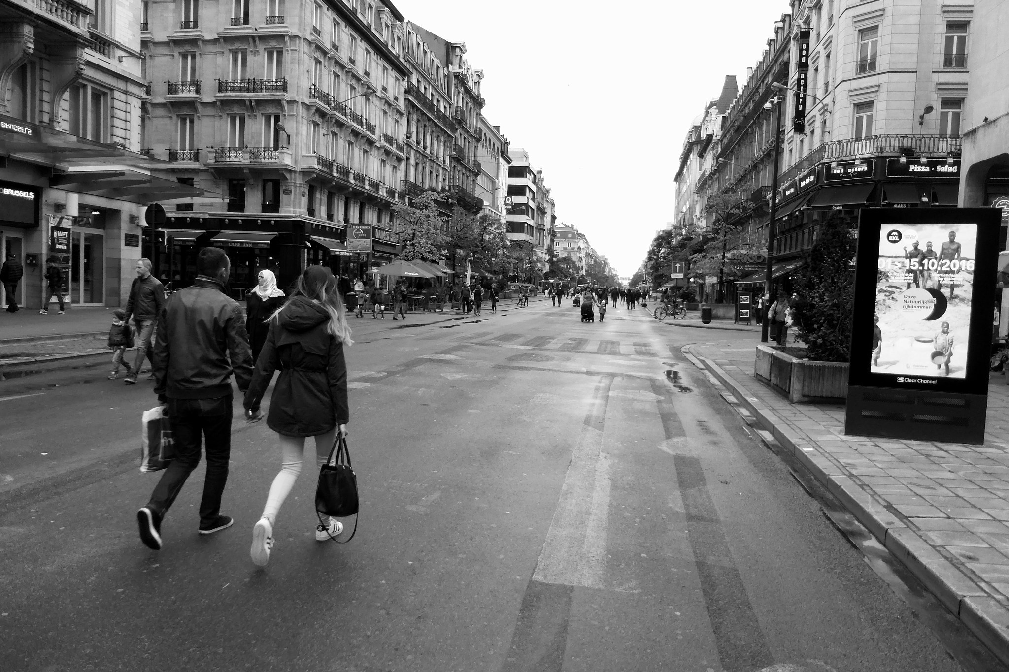 500px provided description: Brussels, fall 2016 [#city ,#street ,#centre ,#road ,#black and white ,#pedestrian ,#advertisement ,#passers-by ,#Brussels ,#Belgium ,#Brussels-capital region]